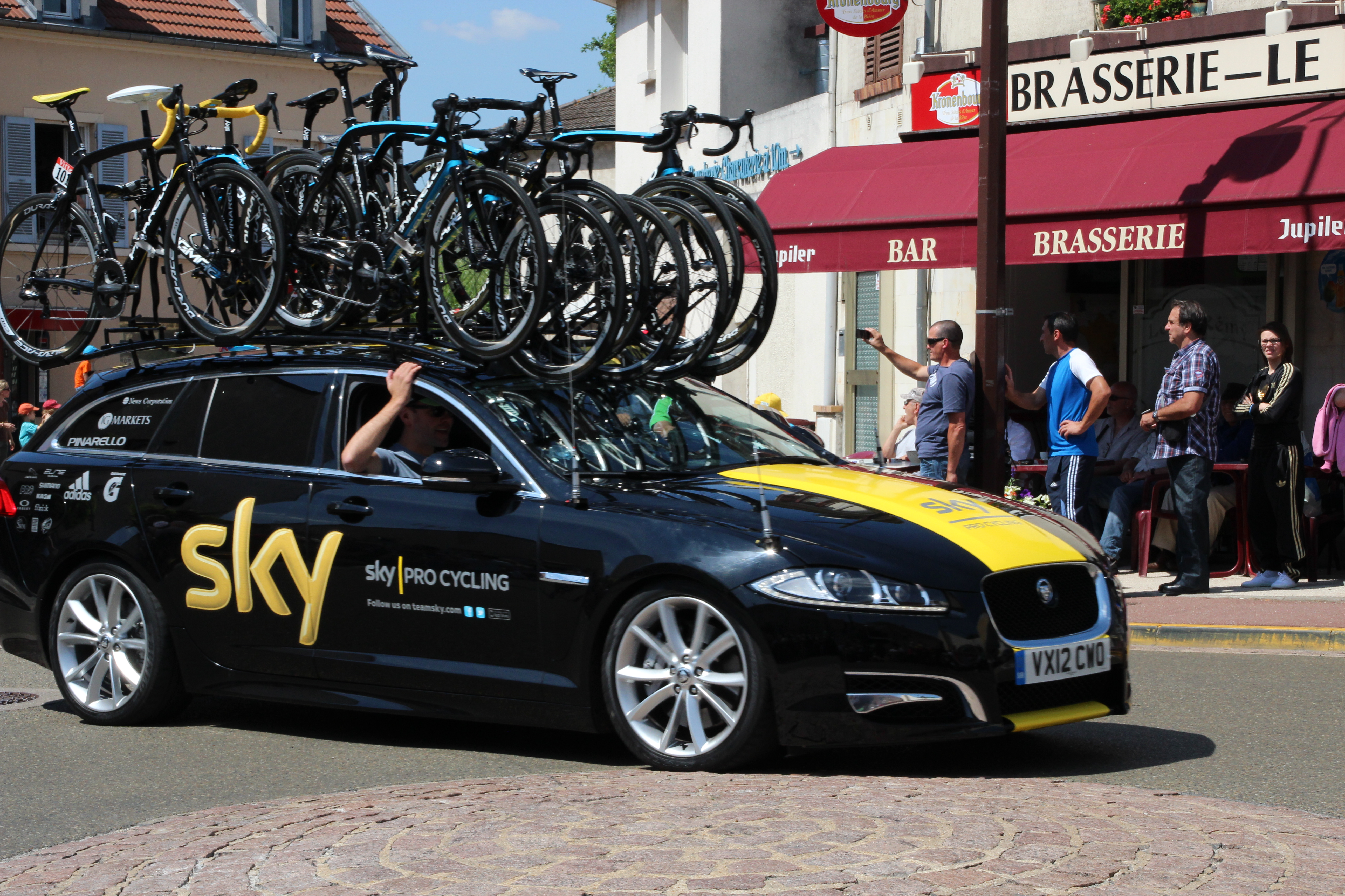 Passage of the 2012 Tour de France in Saint-Rémy-lès-Chevreuse, France.